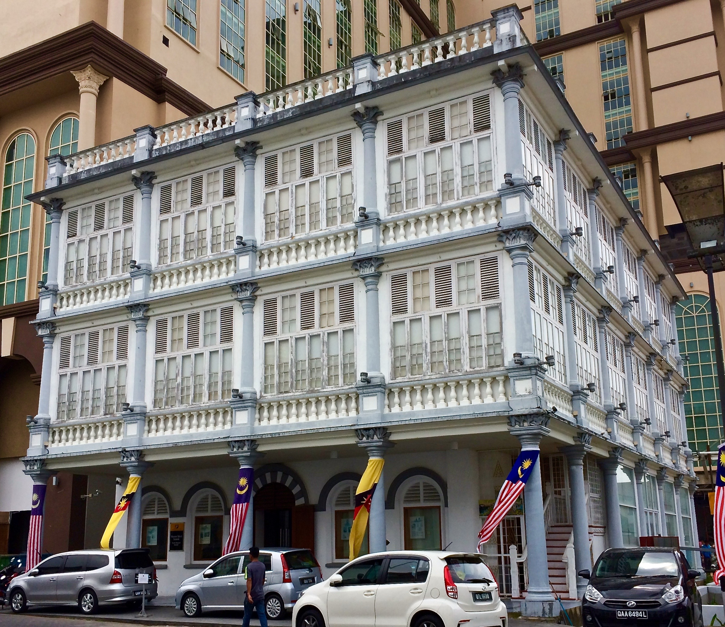 The old education department building viewed at an angle.